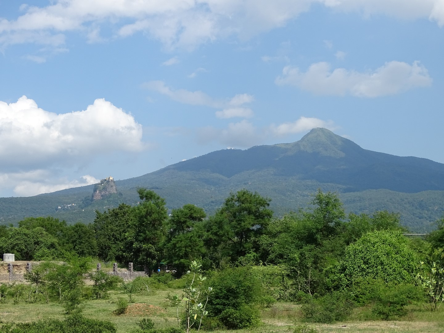 View of the volcano Mount Popa and lateral volcano on which the Monastery Taung Kalat